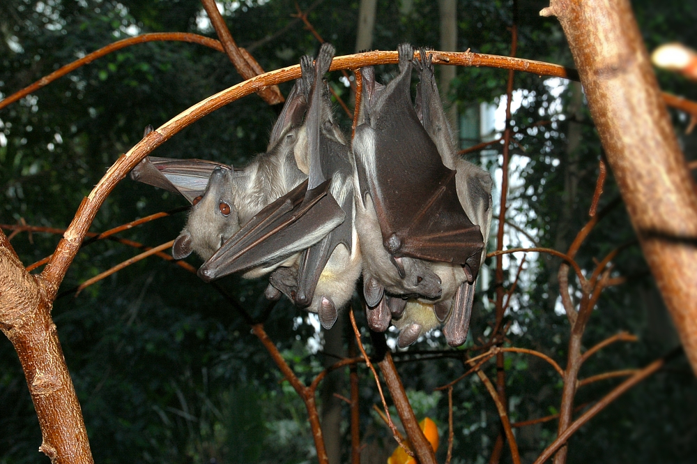 Eidolon helvum, Zoological Garden Berlin, Germany